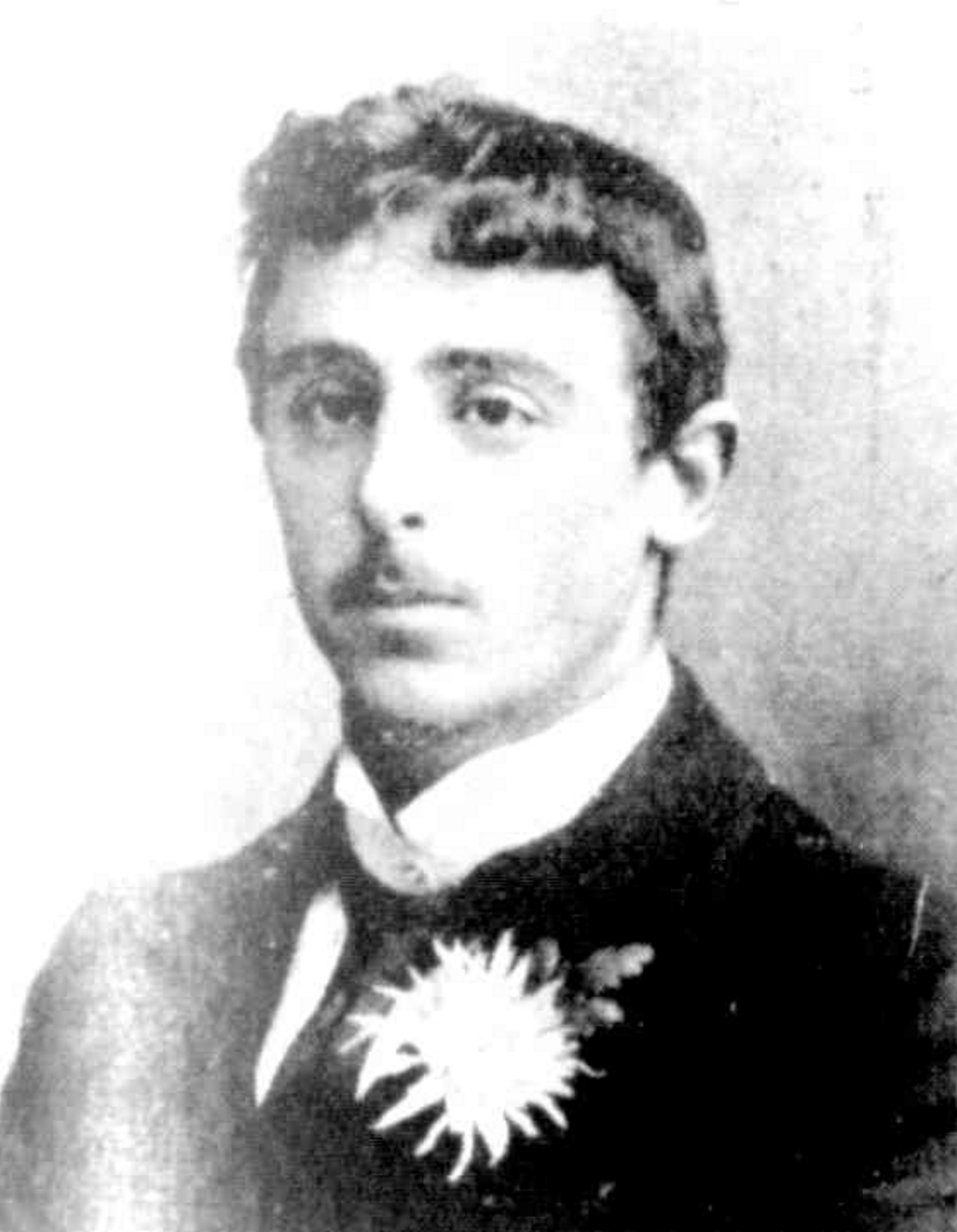 Portrait of Henri Jeanneret published in Melbourne Punch with portraits of several dozen other Victorian Football League players.